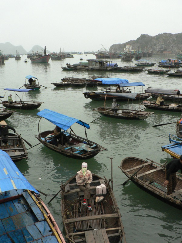 Boats on Ha Long Bay in the Gulf of Tonkin in north Vietnam.